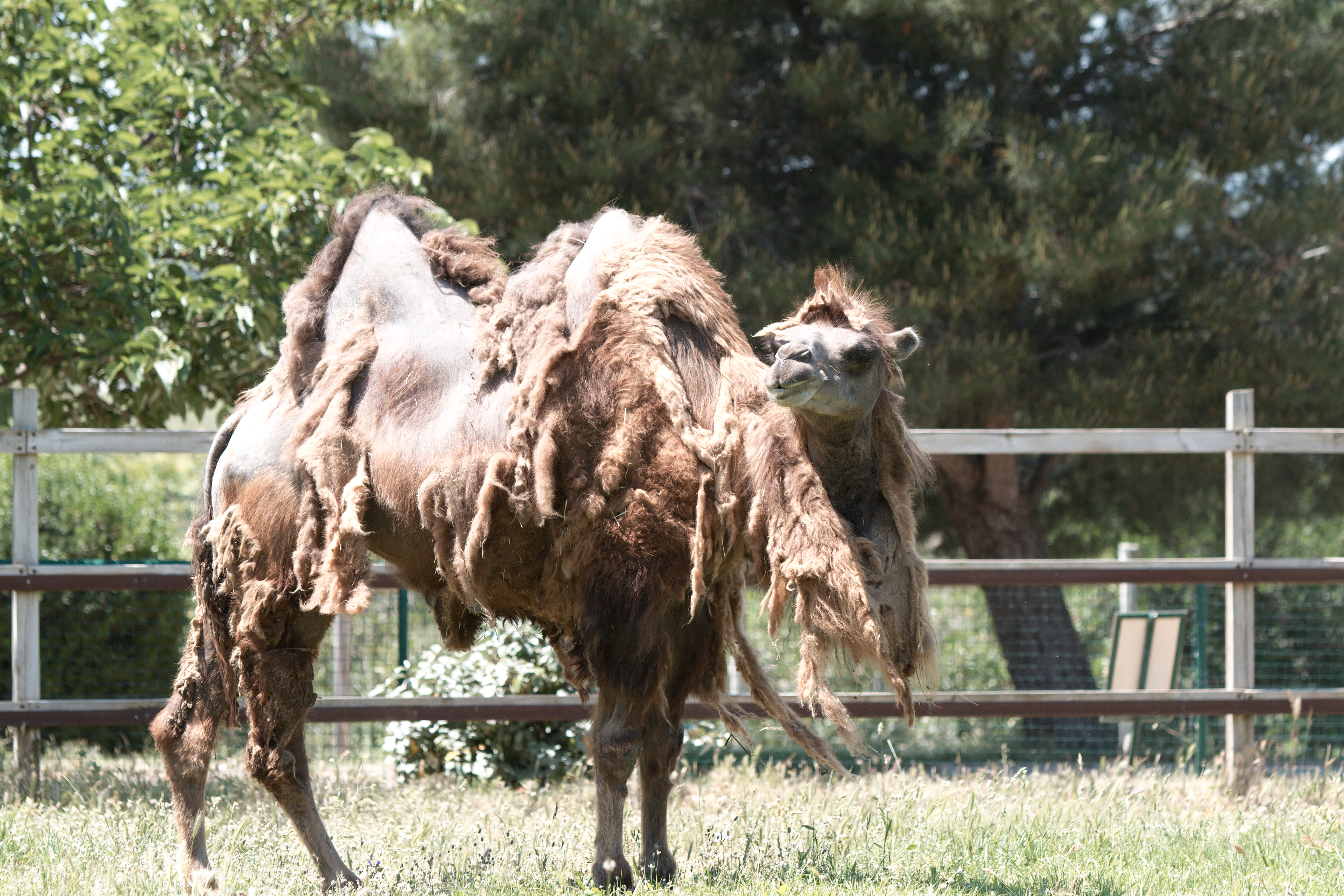 Bactrian Camel (Camelus bactrianus) at La Barben's zoo (France).